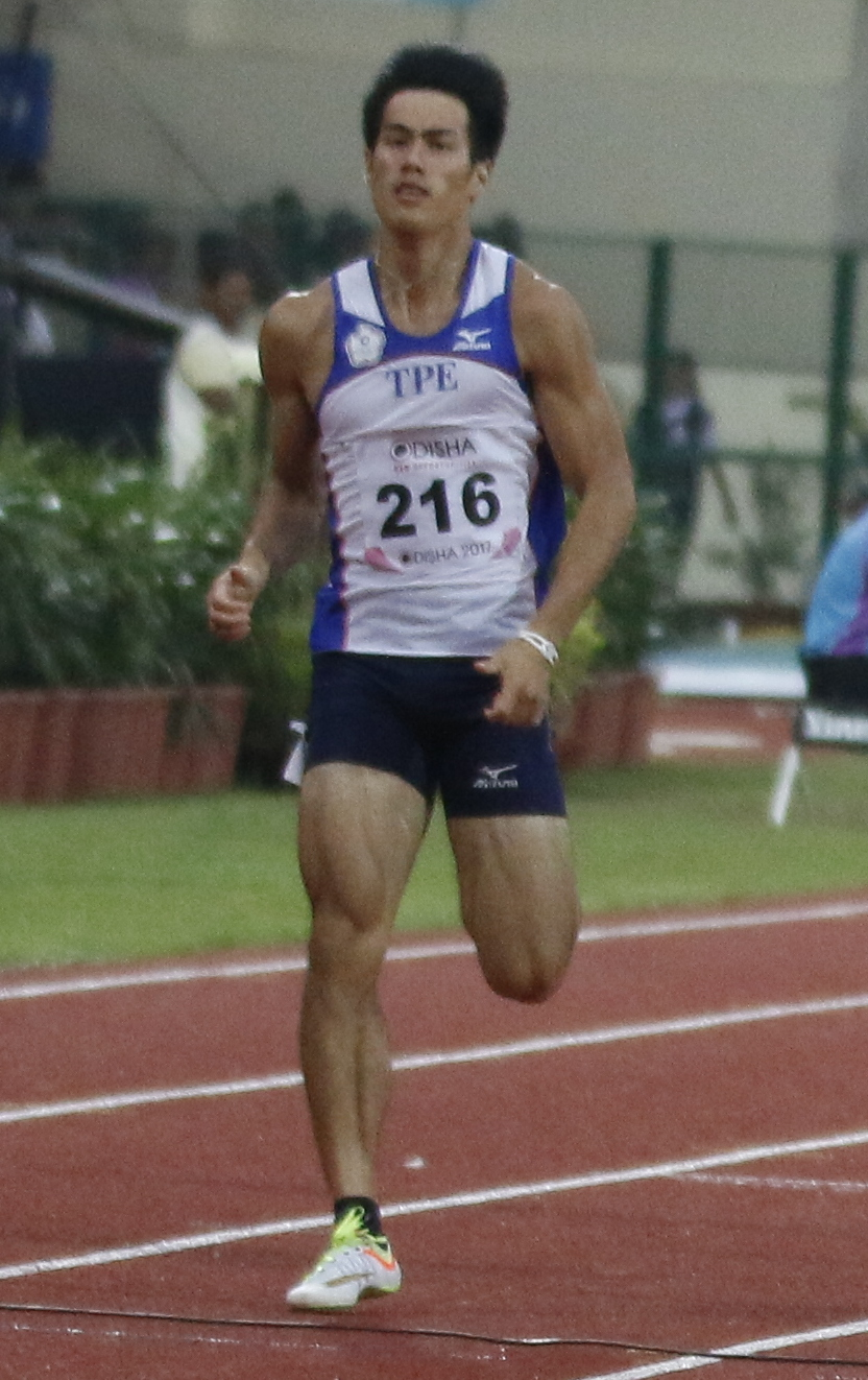 Athletes during 22nd Asian Athletics Championships in Bhubaneswar.